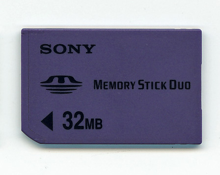 Memory Stick Duo MSA-M32A